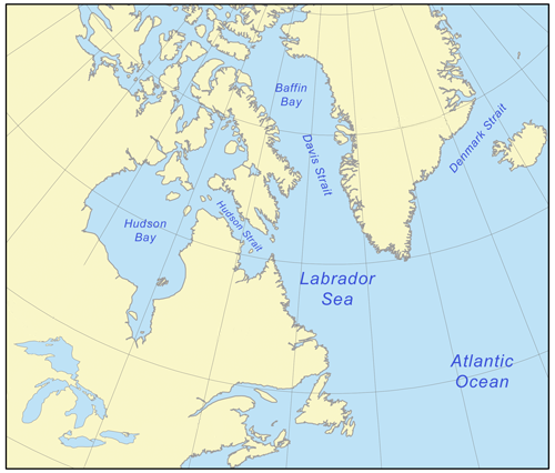 Map of the Labrador Sea